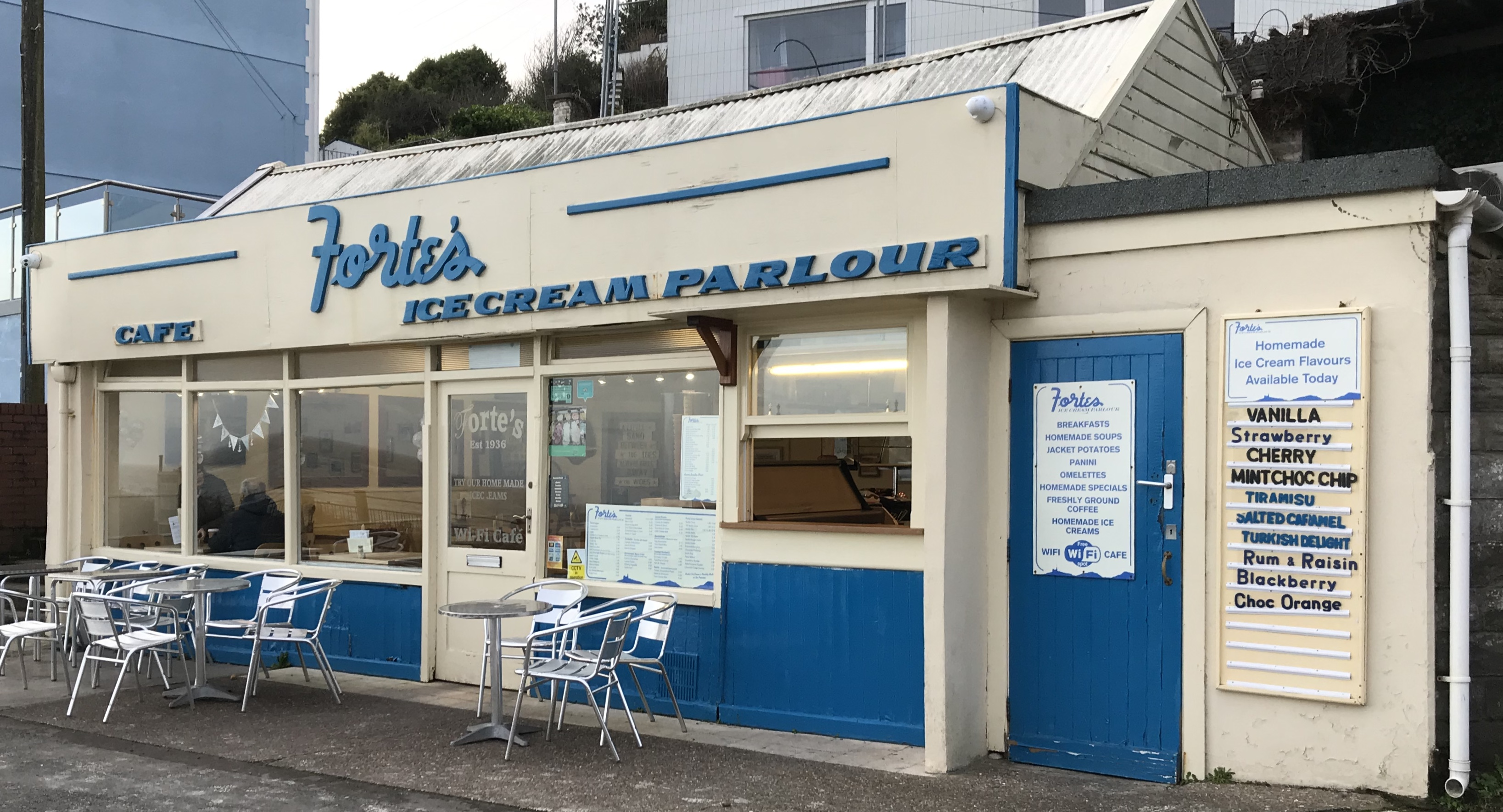 Fortes Ice Cream Parlour, Bracelet Bay, Swansea